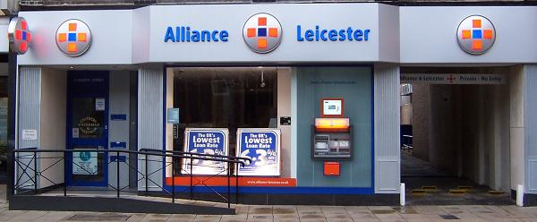 A high-street branch of the Alliance & Leicester.